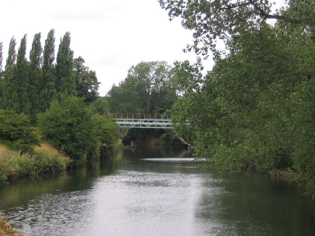 River Aire, Swillington, near Leeds, West Yorkshire, England